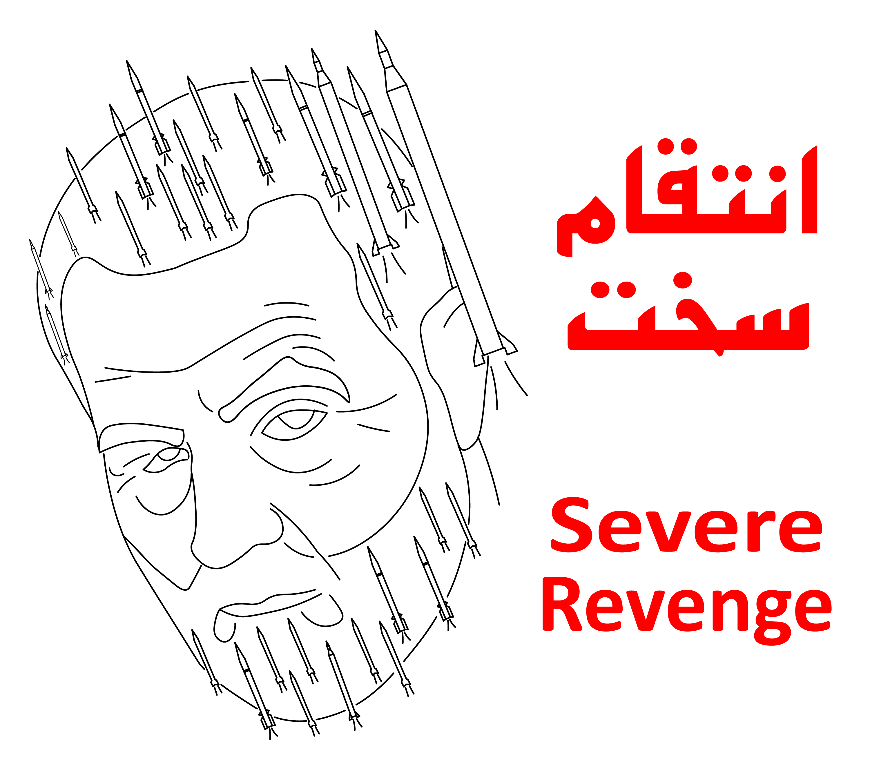 assassination of Qasem Soleimani